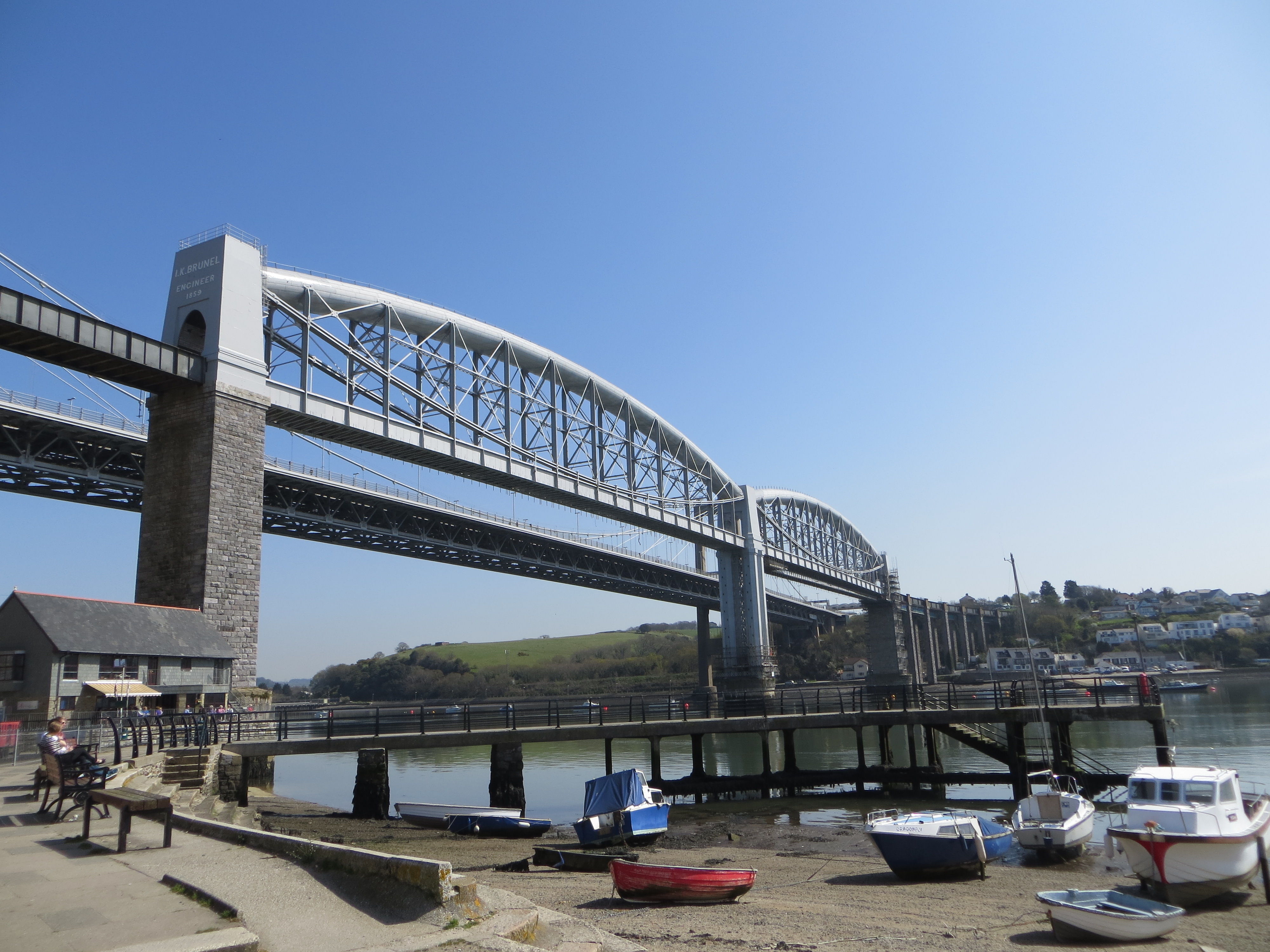 Saltash and the bridges